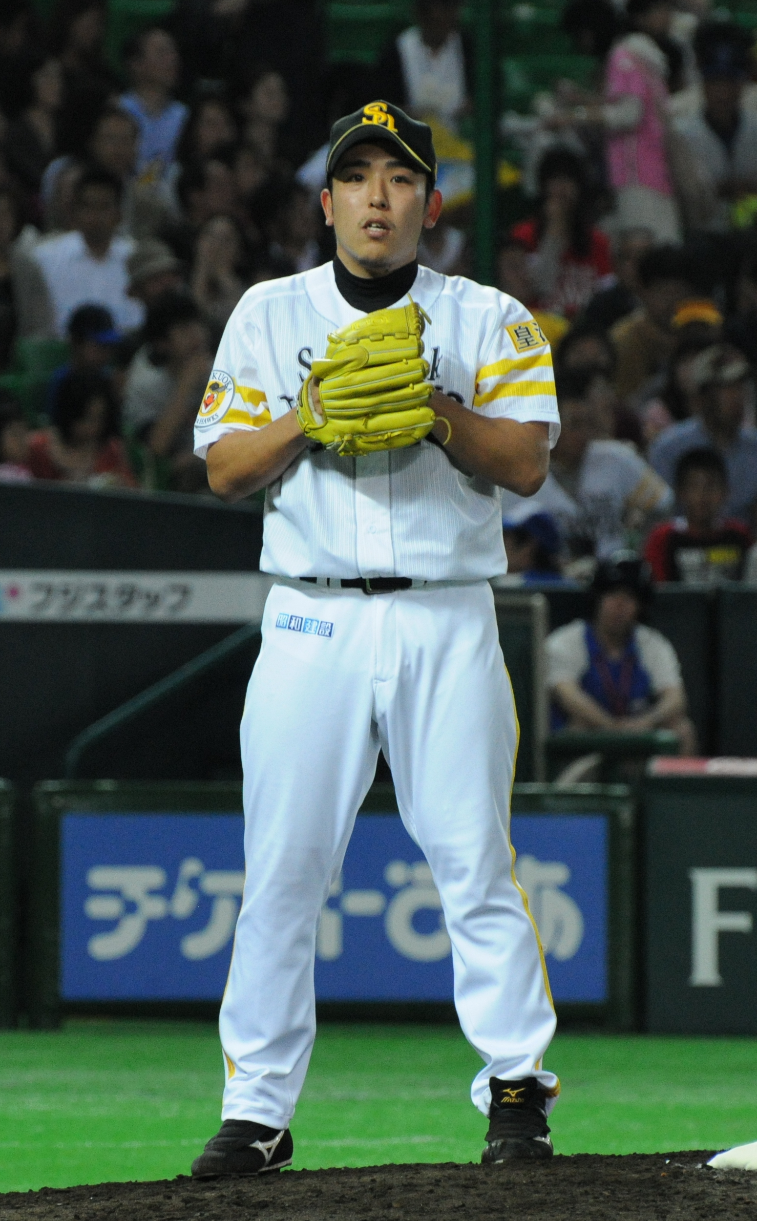 Kenji Otonari, pitcher of the Fukuoka SoftBank Hawks, at Fukuoka Dome.